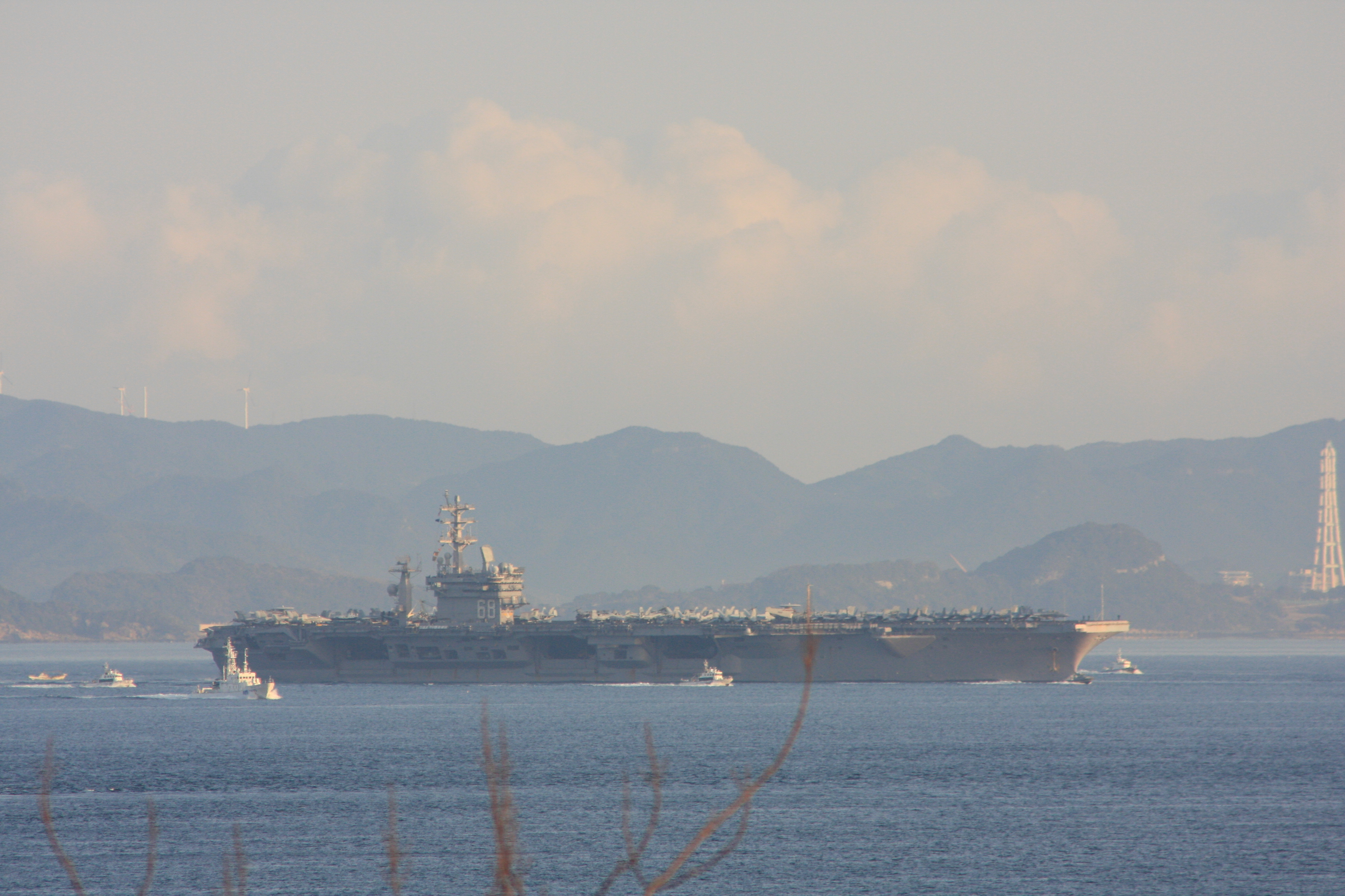 Welcome Nimitz for Sasebo port in Nagasaki Pref.